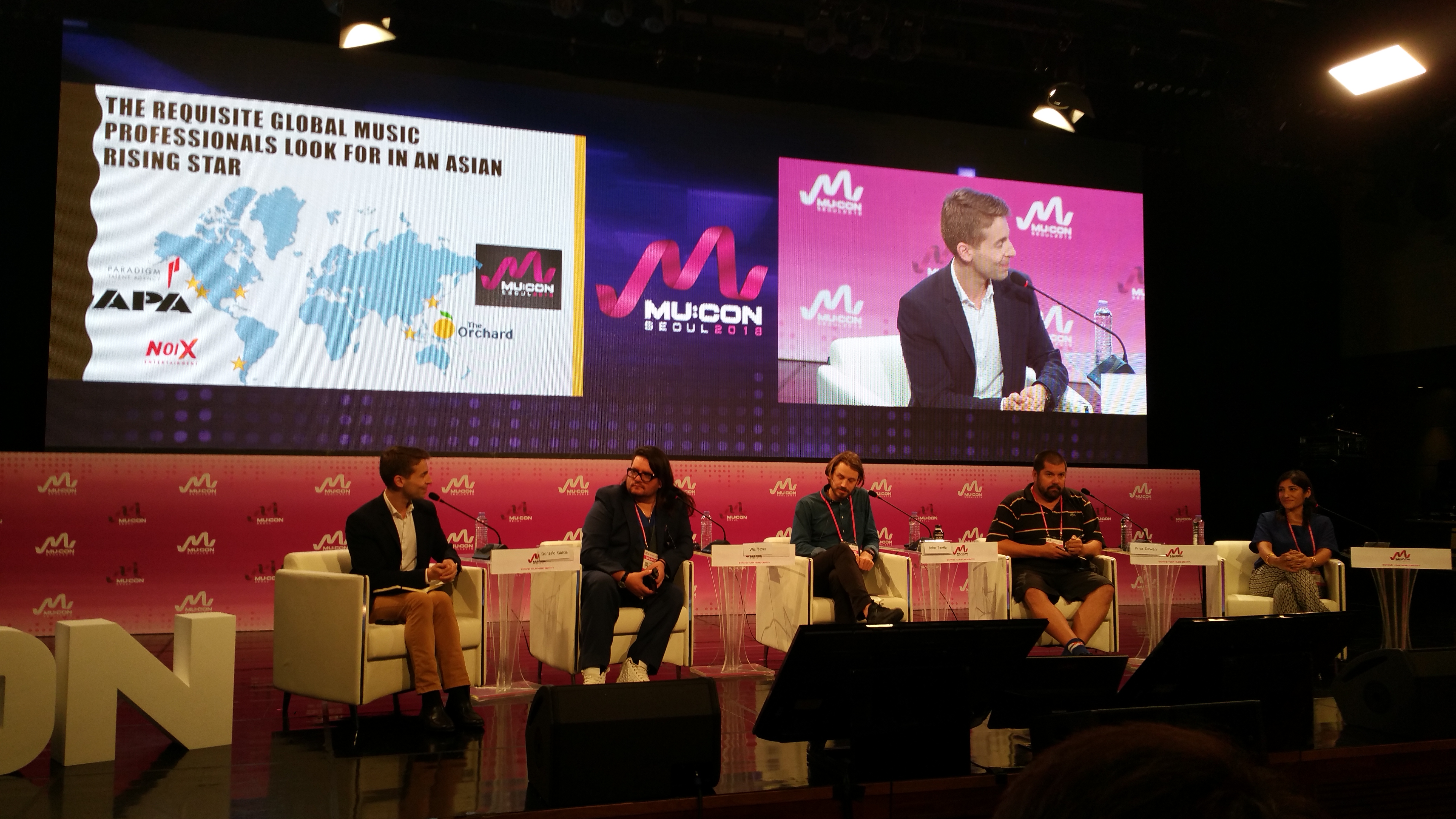 Journalist Jeff Benjamin, Billboard K-Town, hosting panel at Mu:con SEOUL 2018, "The Requisite Global Music Professionals Look for in an Asian Rising Star".